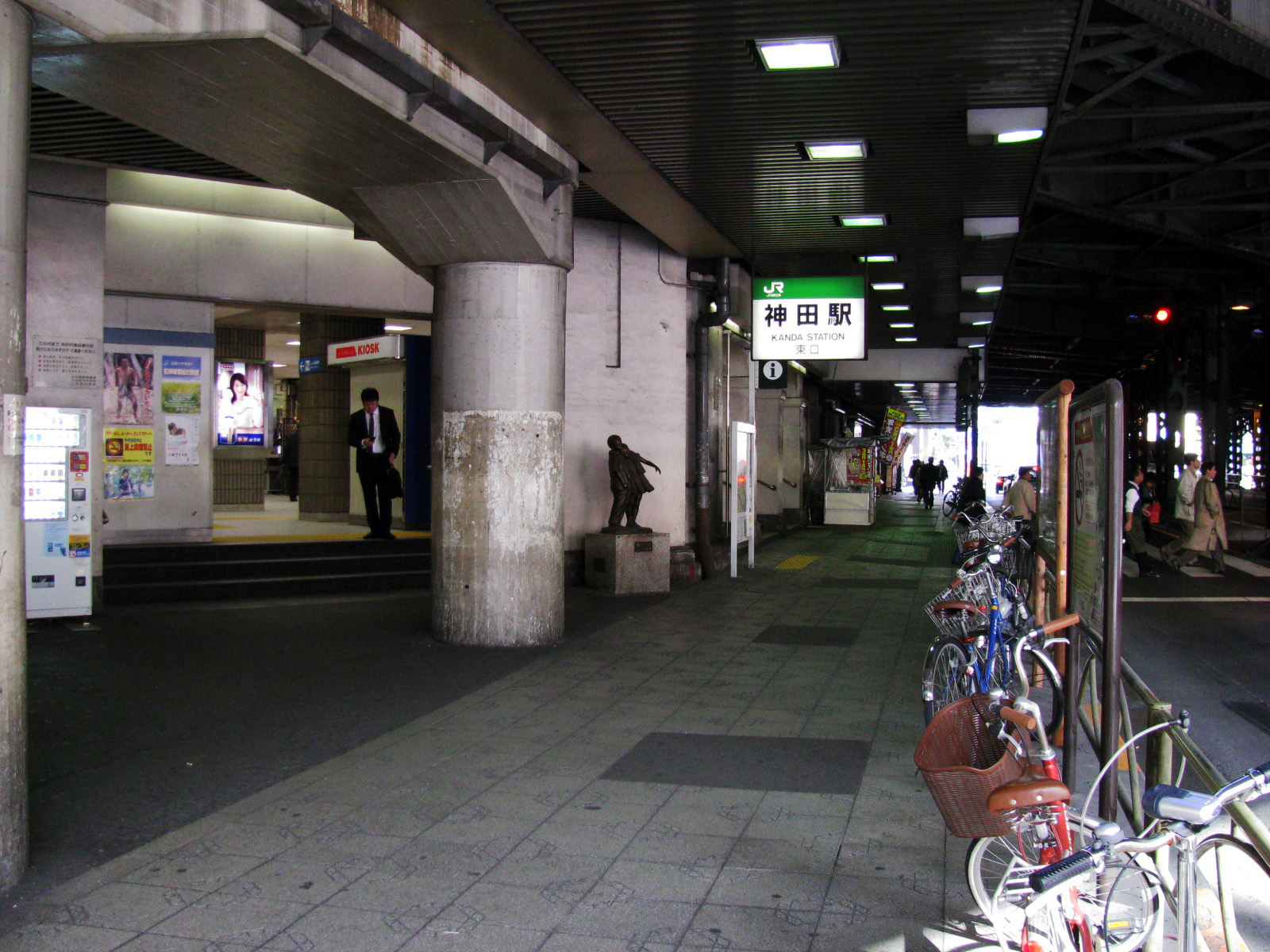 JR Kanda station on JR Tohoku main line.